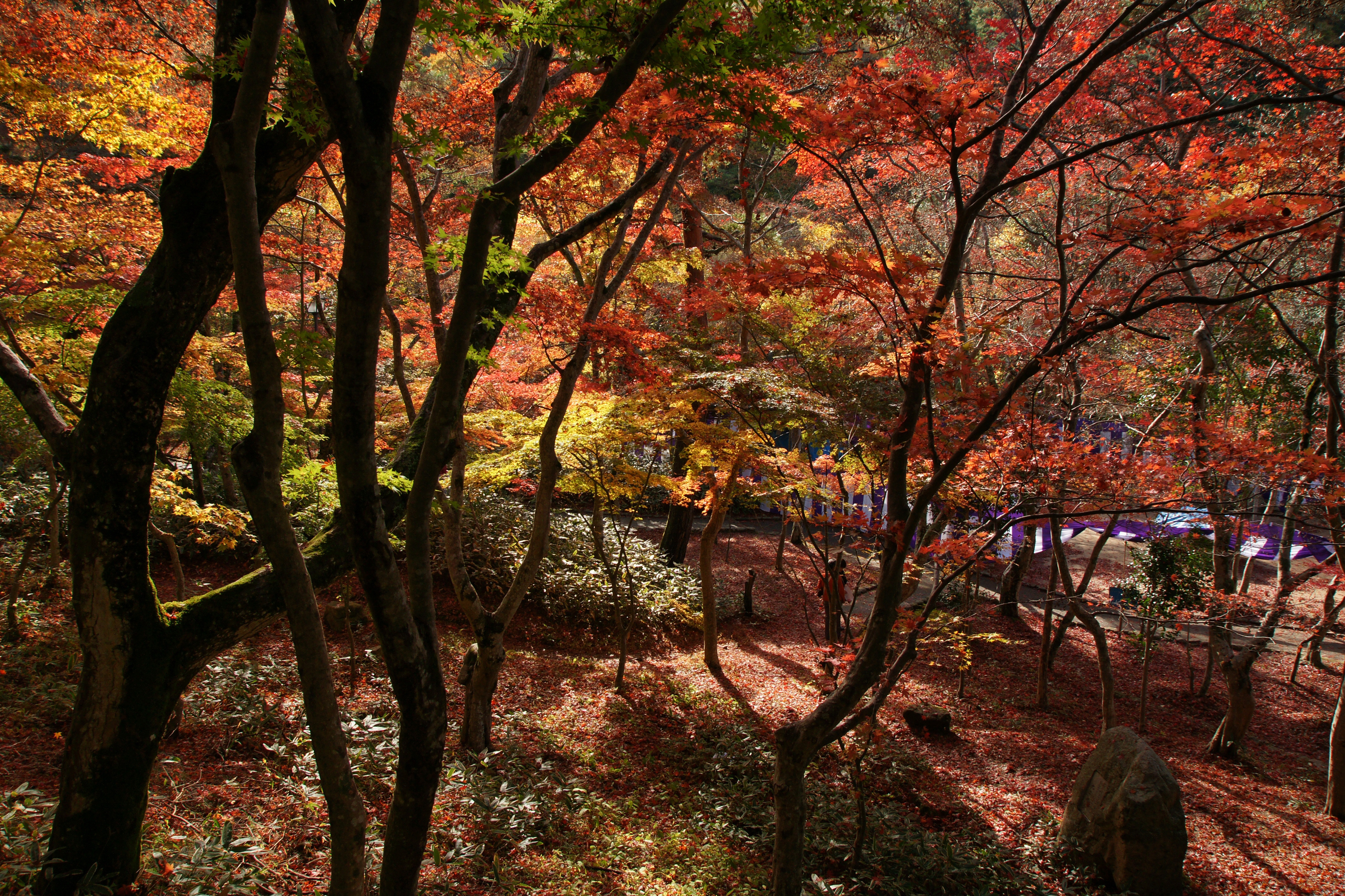 Zuihoji Park of Arima onsen in Kobe, Hyogo prefecture, Japan